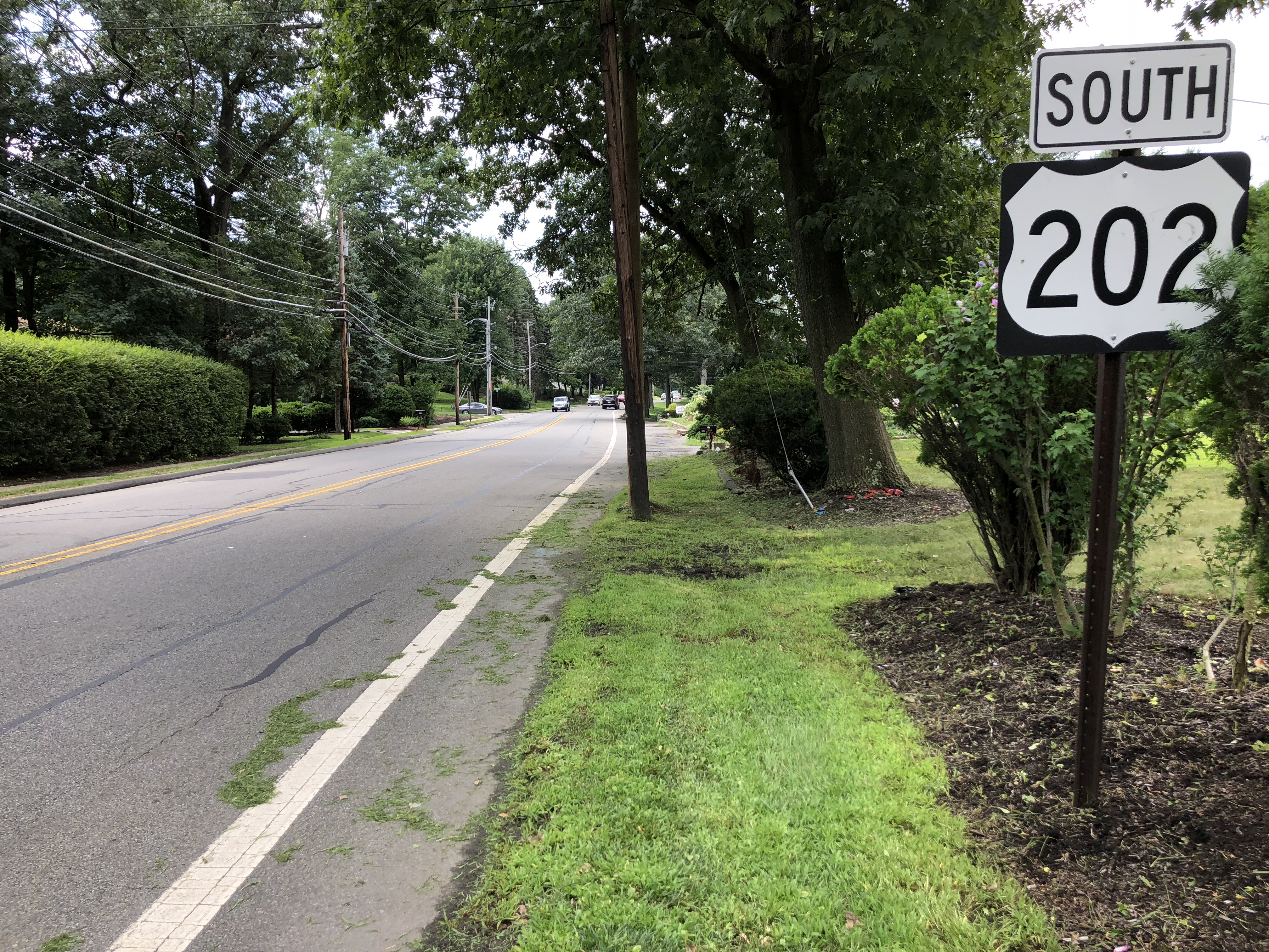 View south along U.S. Route 202 (Littleton Road) at Malapardis Road in Morris Plains, Morris County, New Jersey